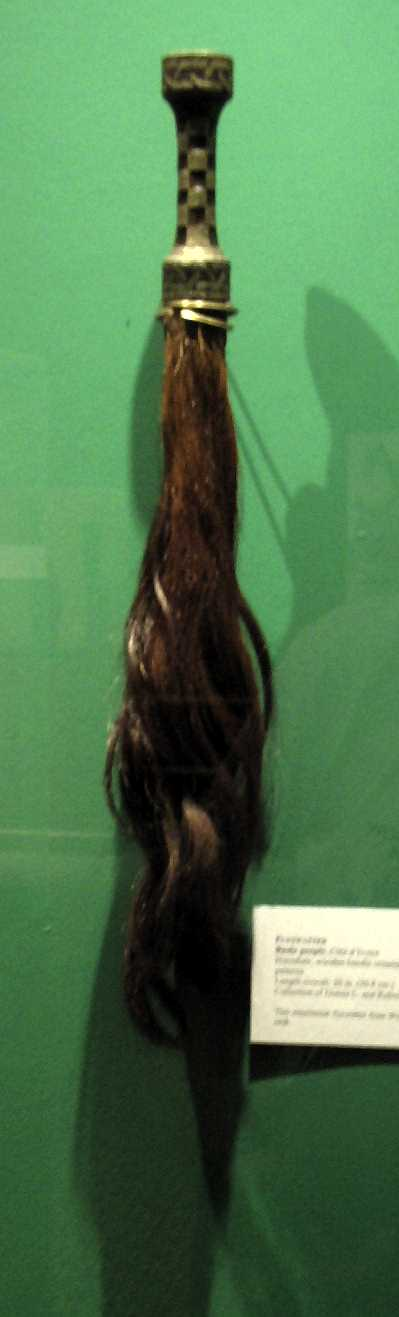 African horsehair flyswatter, made in Côte d'Ivoire, in the collection of Donna L and Robert B Johnson, displayed at Western Reserve Historical Society in Cleveland, Ohio, photo by Eric Bear Albrecht September 18, 2004. Placed in public domain by photographer.